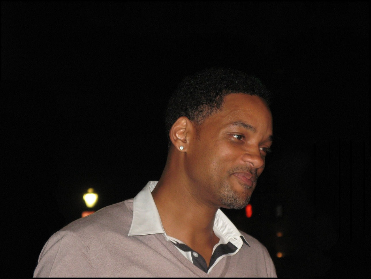 Will Smith, sorry for the red eyes!